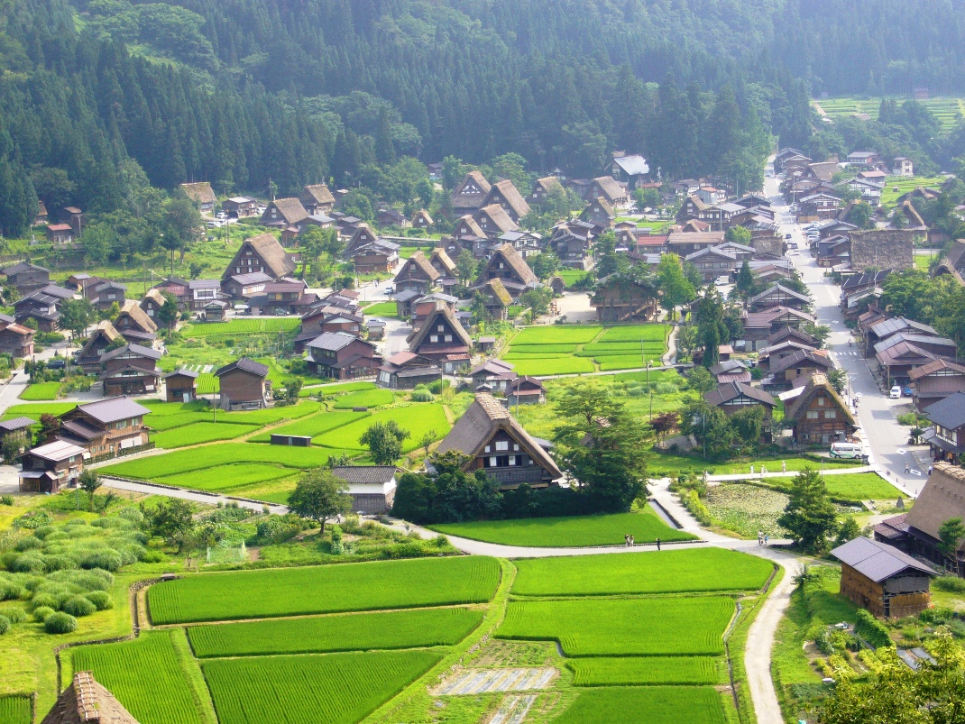 View of Historic Villages of Shirakawa-go and Gokayama.